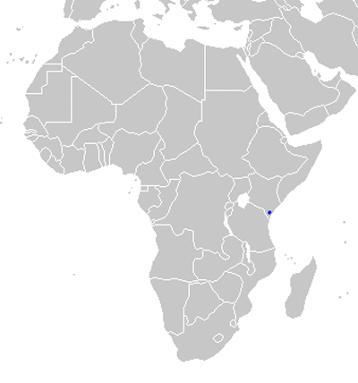 Close up of Boulengerulaus taitana range in blue.